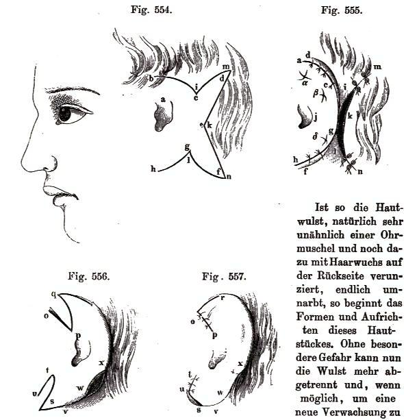 Illustration from Szymanowski's surgery book (1870)